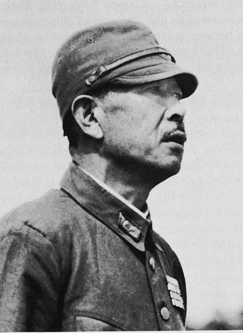 LT. GEN. HATAZO ADACHI, Commanding General of the Japanese 18th Army.